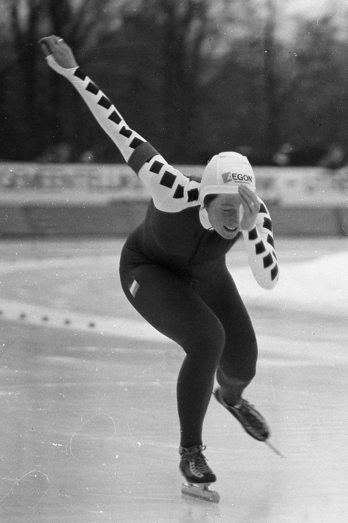 Thea Limbach is a former Dutch speedskater